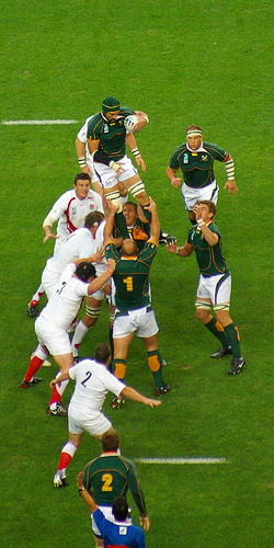 South Africa - England Rugby World Cup 2007 Saint Denis. Stade de France Victor Matfield Os Du Randt Bakkies Botha